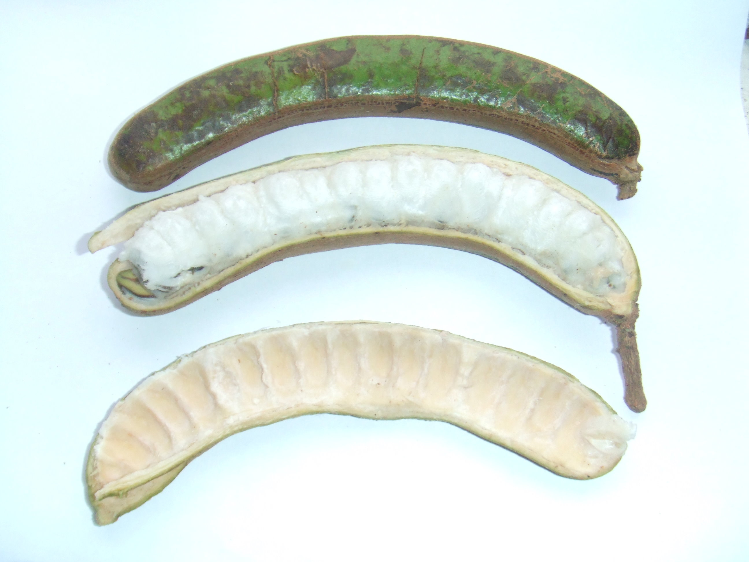 Bean of an Inga-species, bought at the market in Rotterdam